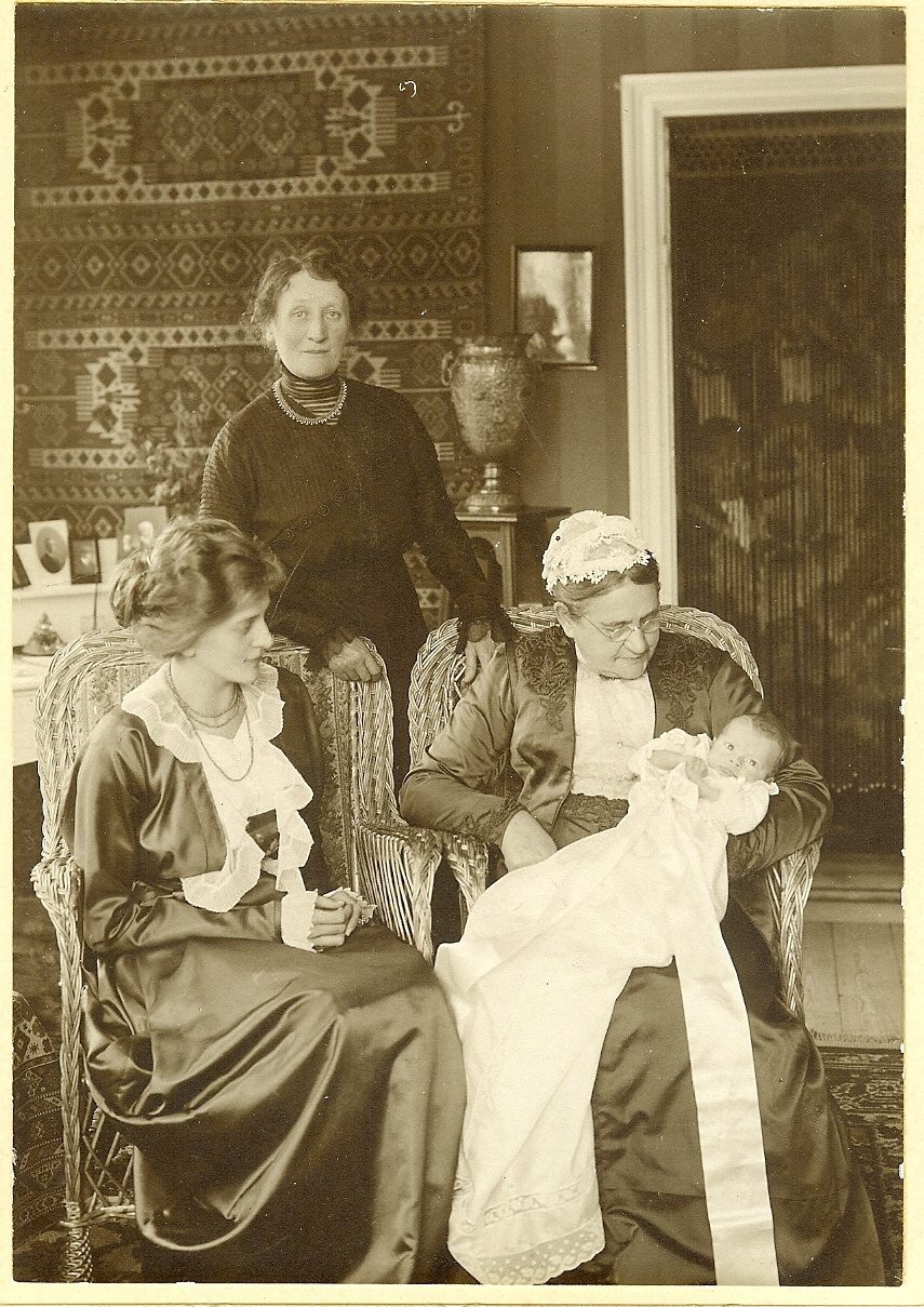 Four generations in one picture. Ingrid Norling, Olivia Lundgren, Johanna Holmberg and Lars Norling.